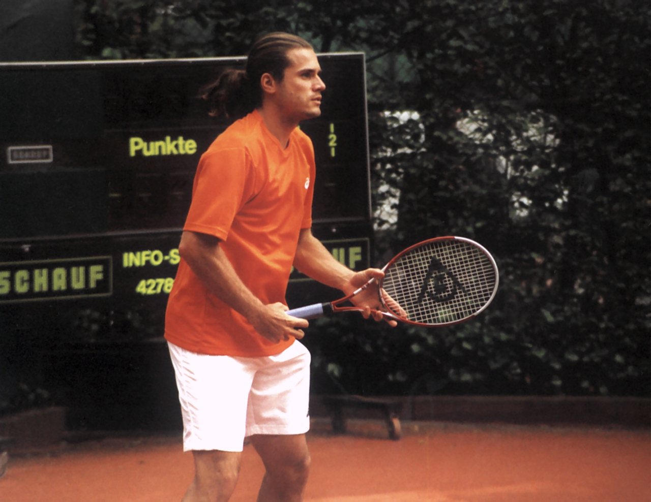 The German tennis player Tommy Haas at the public training for the World Team Cup in Düsseldorf, Germany, 2005.